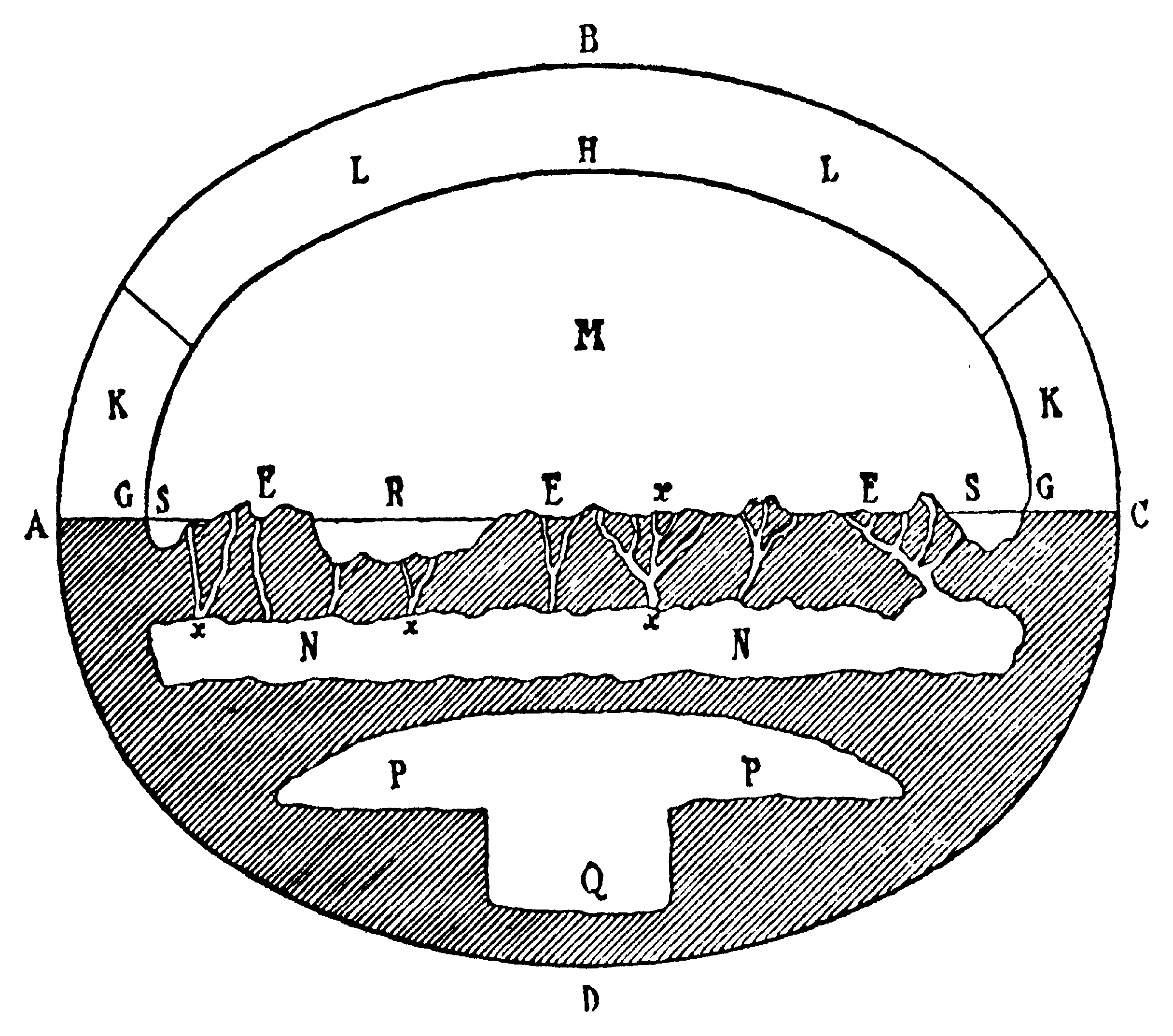 Heaven, the earth, and the abysses, based on the Old Testament interpretation of Giovanni Schiaparelli. ABC = the upper heaven; ADC = the curve of the abyss; AEC = the plane of the earth and seas; SRS = various parts of the sea; EEE = various parts of the earth; GHG = the profile of the firmament or lower heaven; KK = the storehouses of the winds; LL = the storehouses of the upper waters, of snow, and of hail; M = the space occupied by the air, within which the clouds move; NN = the waters of the great abyss; xxx = the fountains of the great abyss; PP = Sheol or limbo; Q = the lower part of the same, the inferno properly so called.